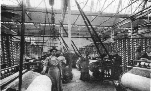 Shorigin's Fabrika (Textile Manufacturing plant) Photo of the beginning of XX-th century (exact date not known, but it is surely before October 1917) (My guess is 1912-1914 when the factory recieved upgraded production lines from UK) Must add here that the photo was on public display in Luberetskiy Museum of Regional Studies To illustrate an article Oktyabrsky, Moscow Oblast